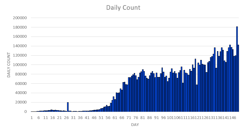 The increase in Covid-19 cases reported to WHO compared to the previous day as of 19-Jun-20